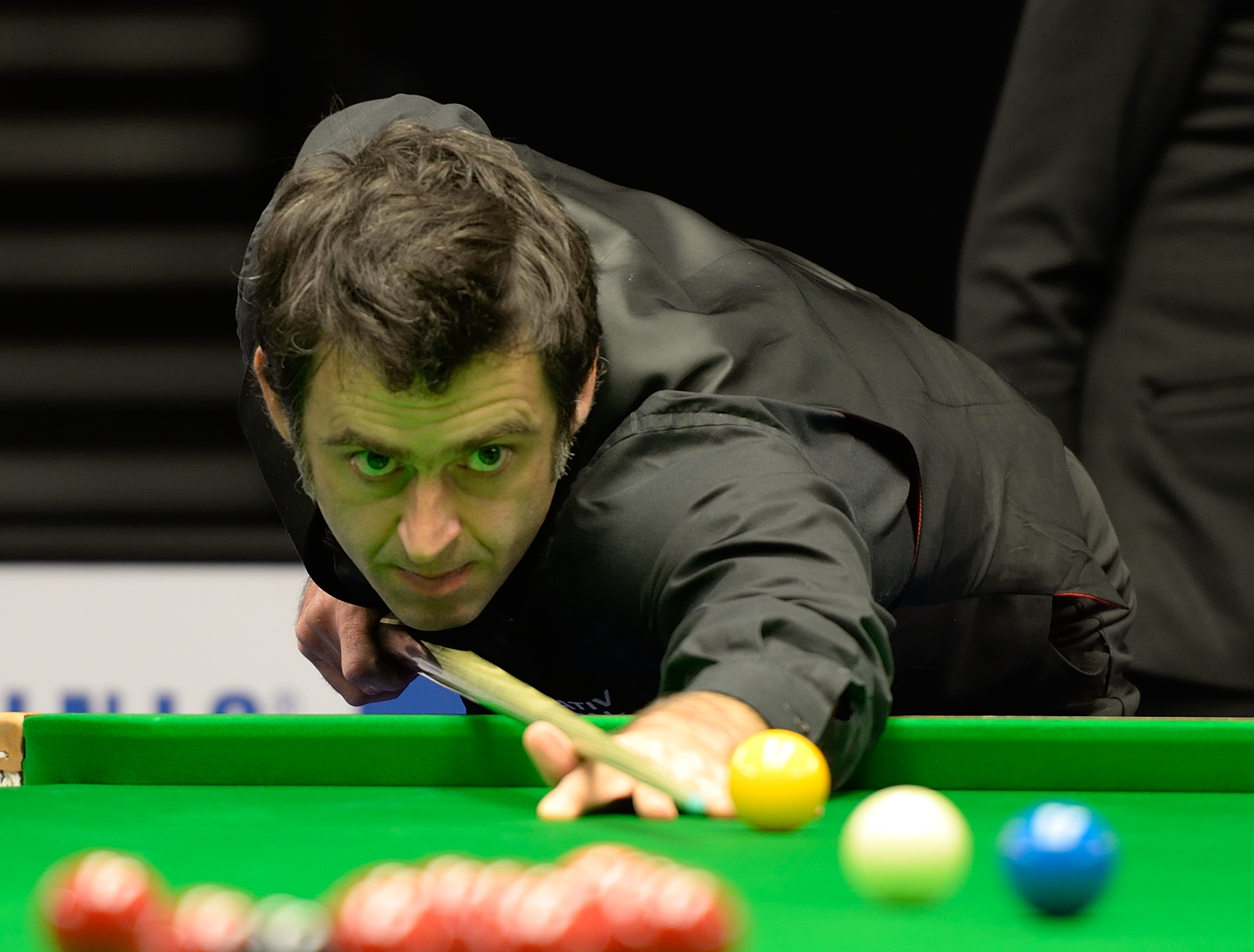 Picture taken in Berlin during the Snooker German Masters in 2015. Ronnie O’Sullivan.